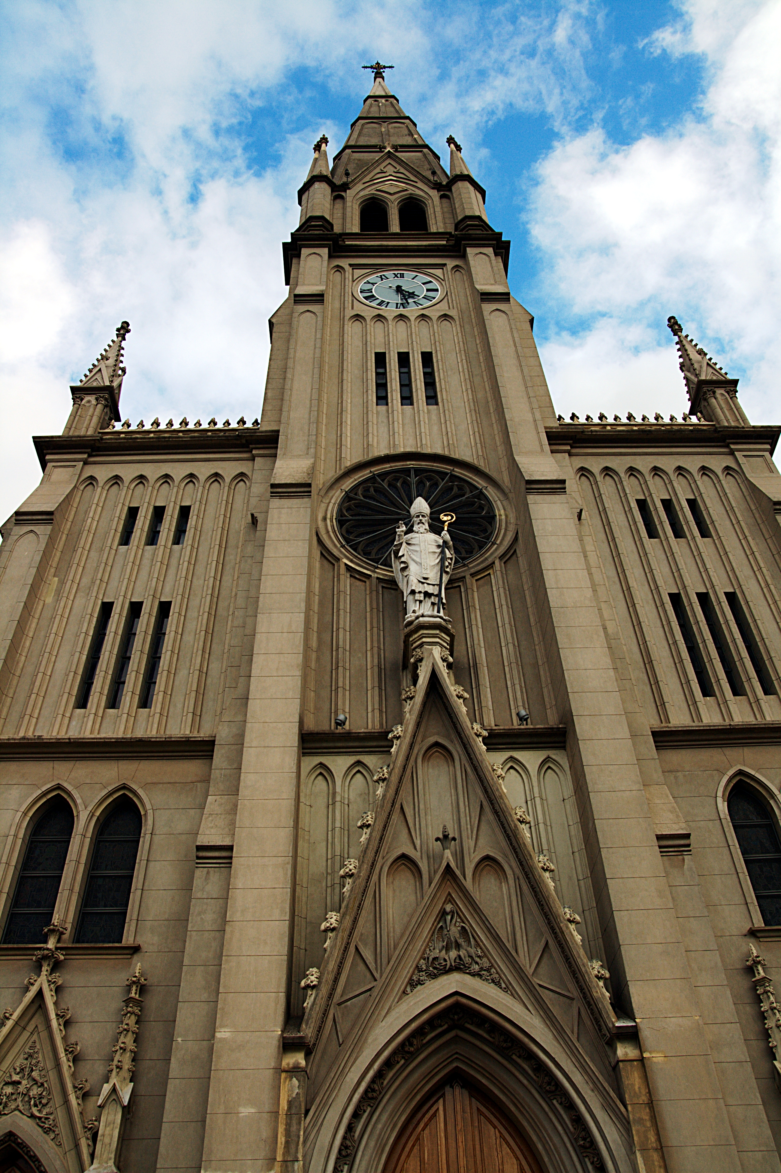 Church of Saint Patrick in Mercedes, Buenos Aires Province.